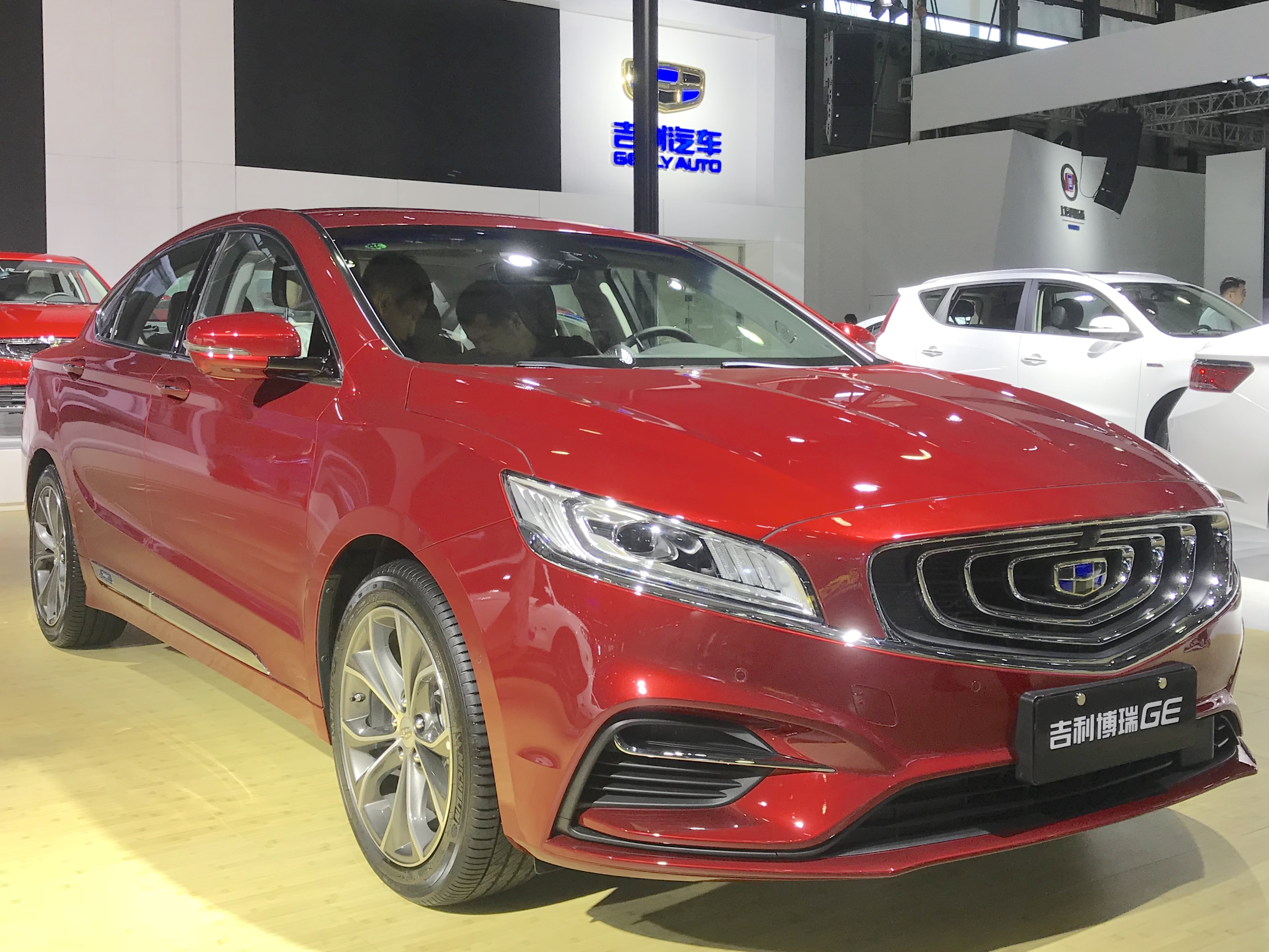 Geely Borui GE facelift front